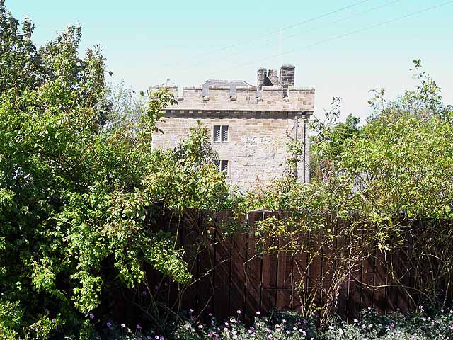 Whittingham Tower This tower in the village of Whittingham was built in the 13th/14th centuries. In 1845, it was converted into almshouses by Lady Ravensworth.